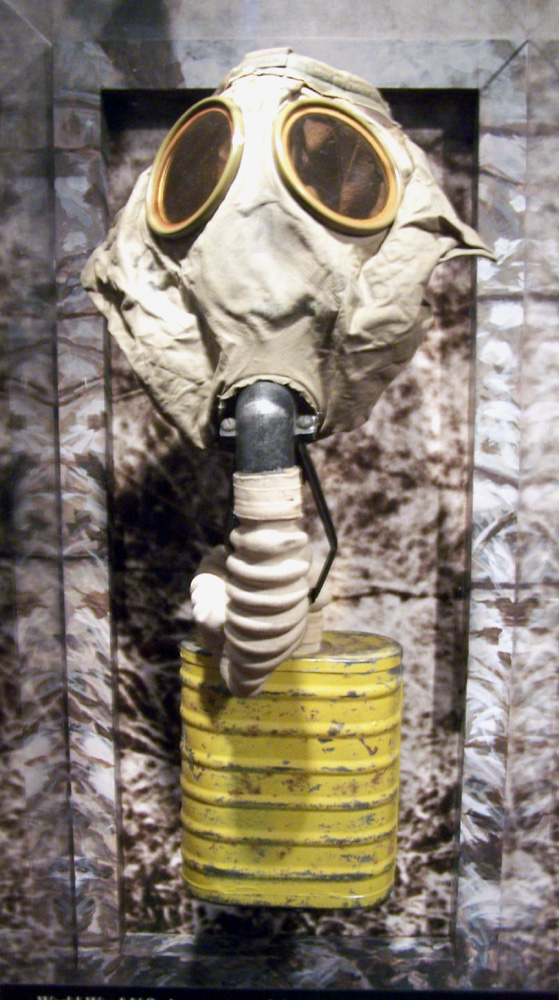 Small Box Respirator (CEM SBR) used in World War I on display at the Lyndon Baines Johnson Library and Museum, Austin, Texas, United States.